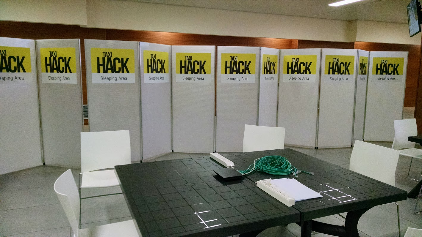 TaxiHackː the first hackathon about taxi organized by Unione Radiotaxi d'Italia 3570.it. Rome (Italy), 13-14 June 2015.